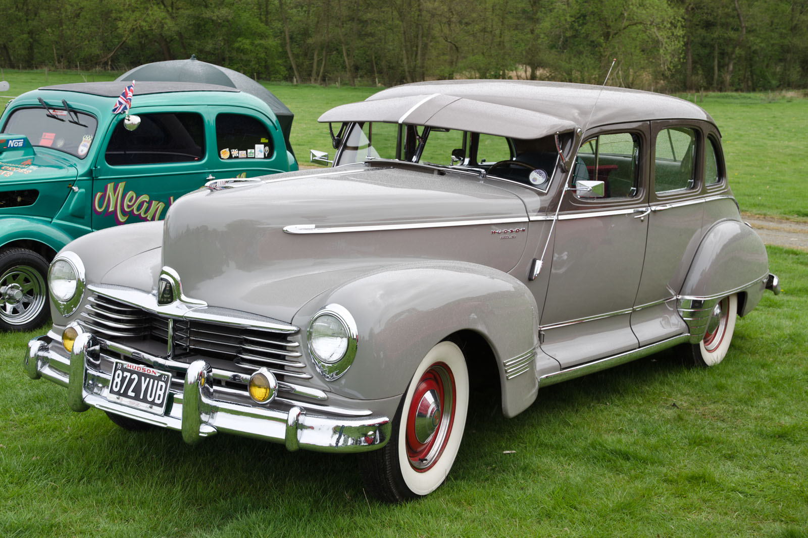 Capesthorne Hall Classic Car Show 24/08/2014